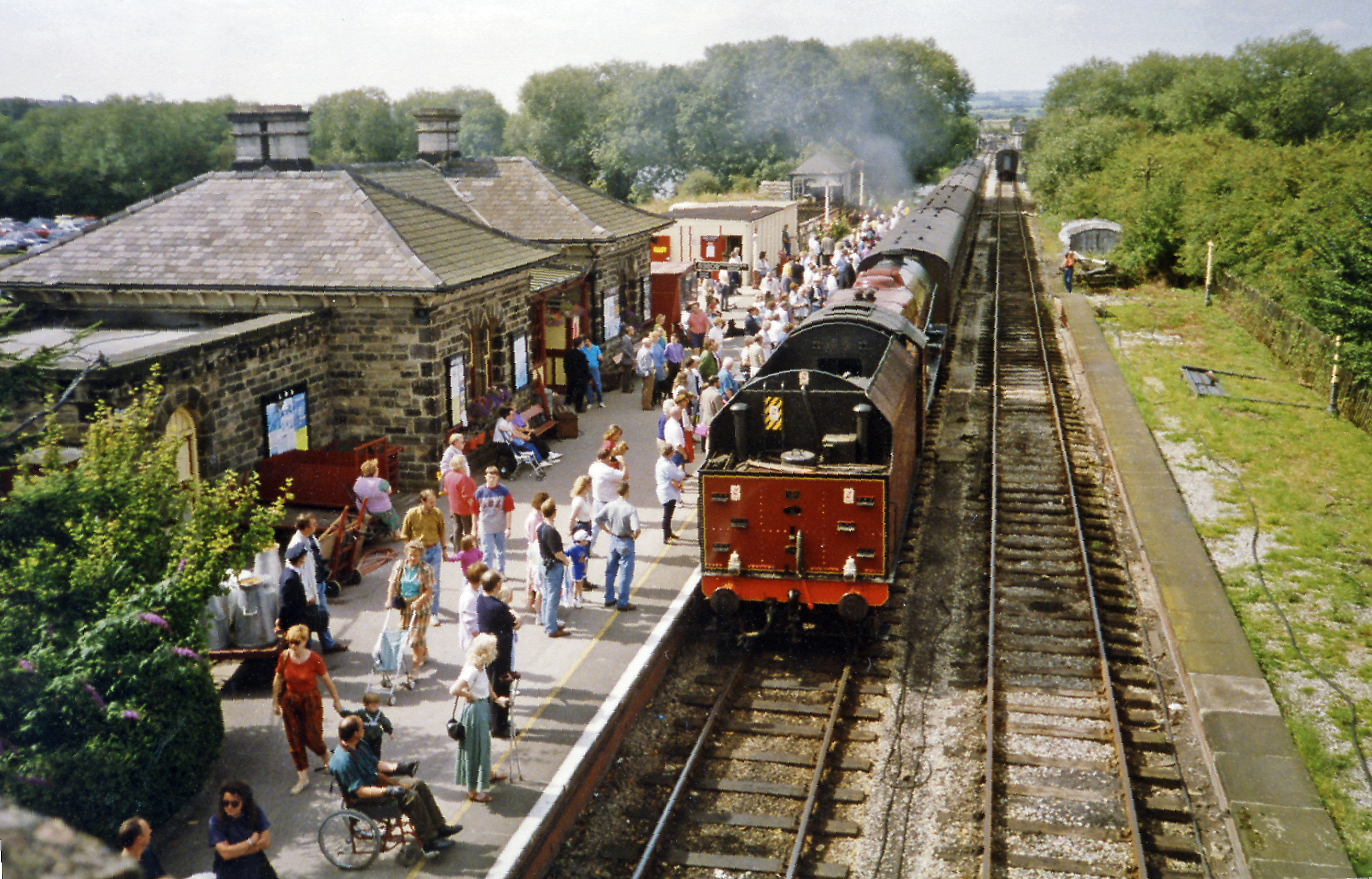 Butterley station, with 'Princess Margaret Rose' 1993. View westward, towards Ambergate: Midland Railway Centre, formerly Ambergate - Pye Bridge line. Bank Holiday crowds watch tender-first Stanier 'Princess Royal' 4-6-2 No. 46203 (built 7/35, withdrawn 10/62 and preserved) on a train shuttling between Hammersmith and Swanwick Junction, 30/8/93.